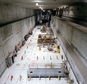 Interior View of the Operating Deck of U Plant, One of the Five Massive Fuel-Separation Facilities on the Hanford Site. The Buildings are Known as "Canyons" because of their Huge, Open Interiors